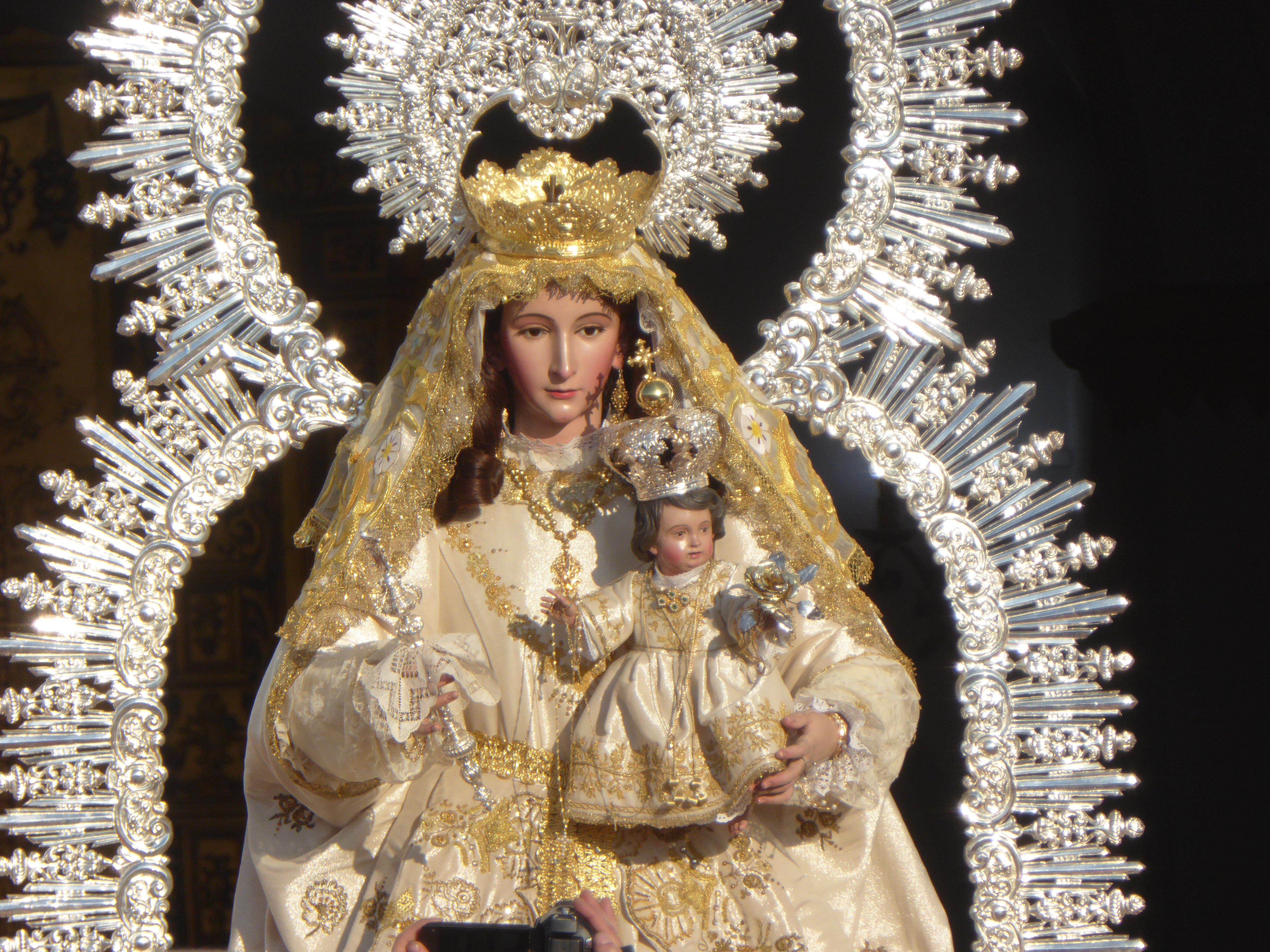 Nuestra Señora de Piedras Albas, año 2019 imagen de la Virgen saliendo de la ermita